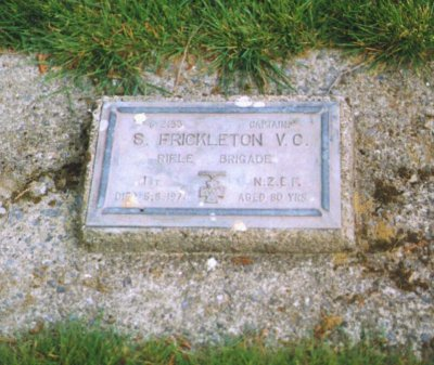 Grave of Victoria Cross recipient Samuel Frickleton.